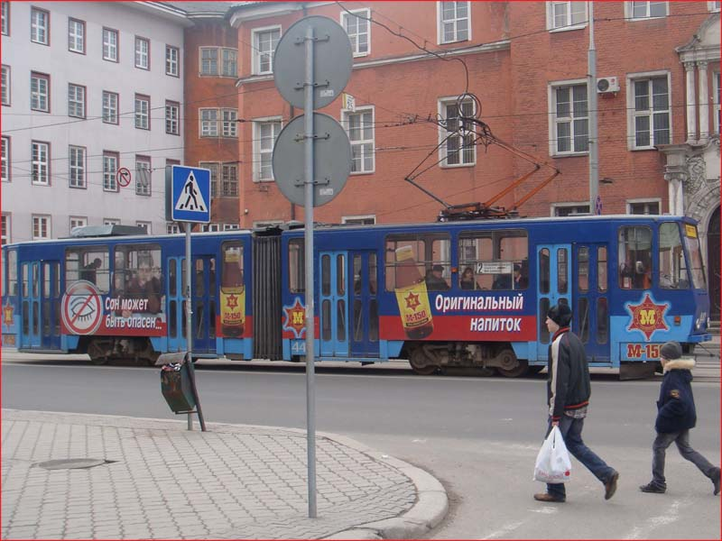 Kaliningrad tram